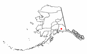 Adapted from Wikipedia's AK borough maps by Seth Ilys.